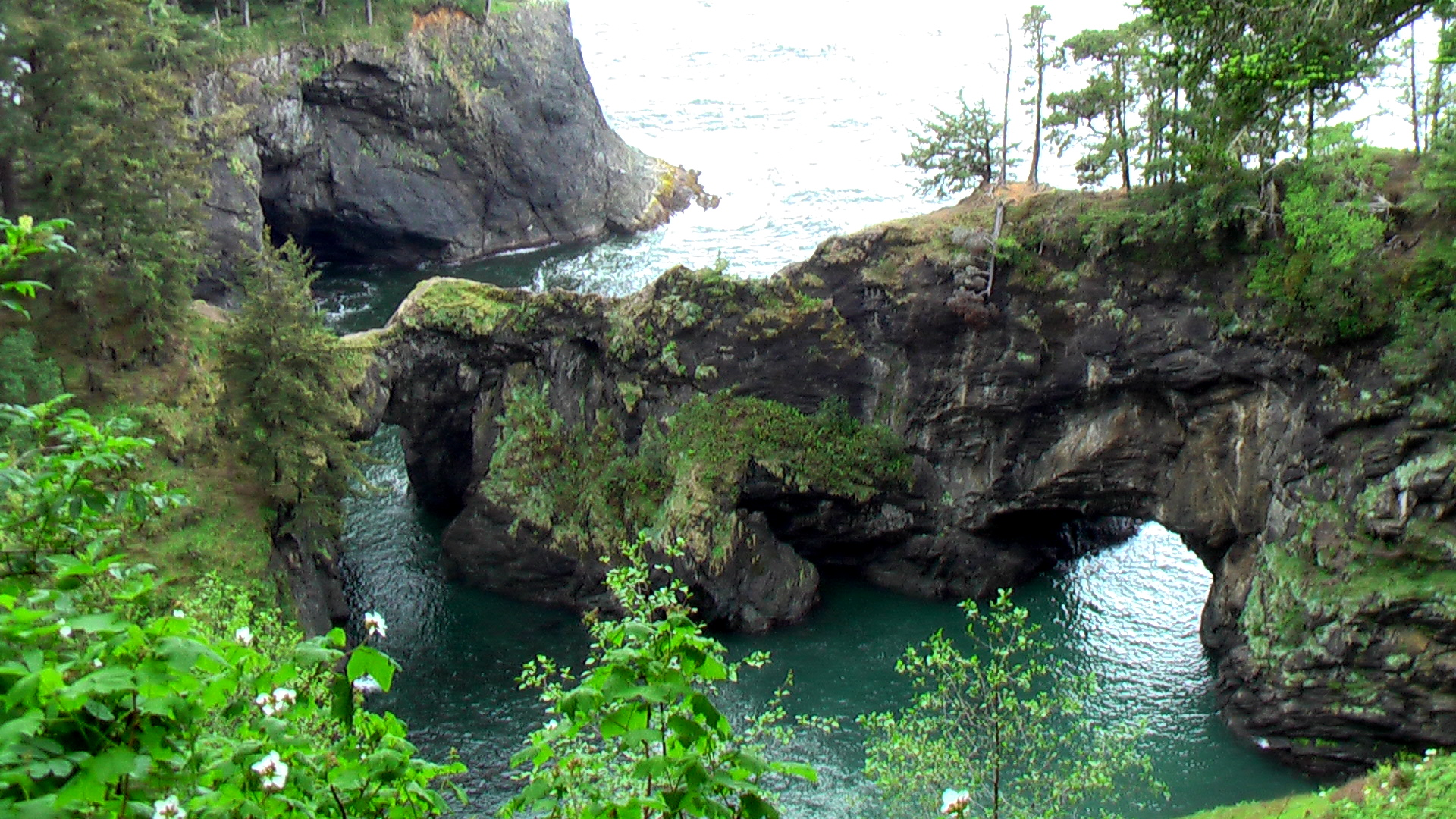 Natural Bridges Cove - Boardman State Park, Oregon